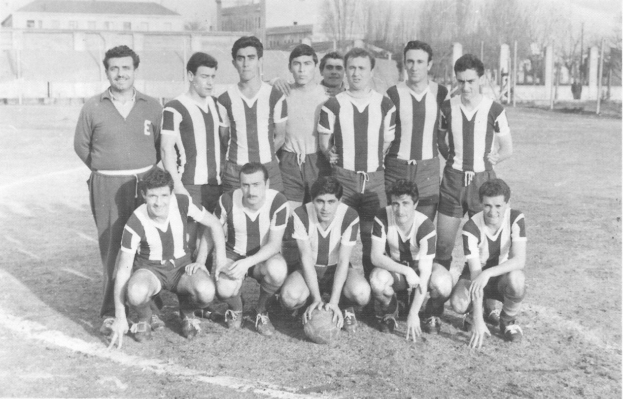 One of the first Deportivo Merlo association football squads. The club was established in 1954.